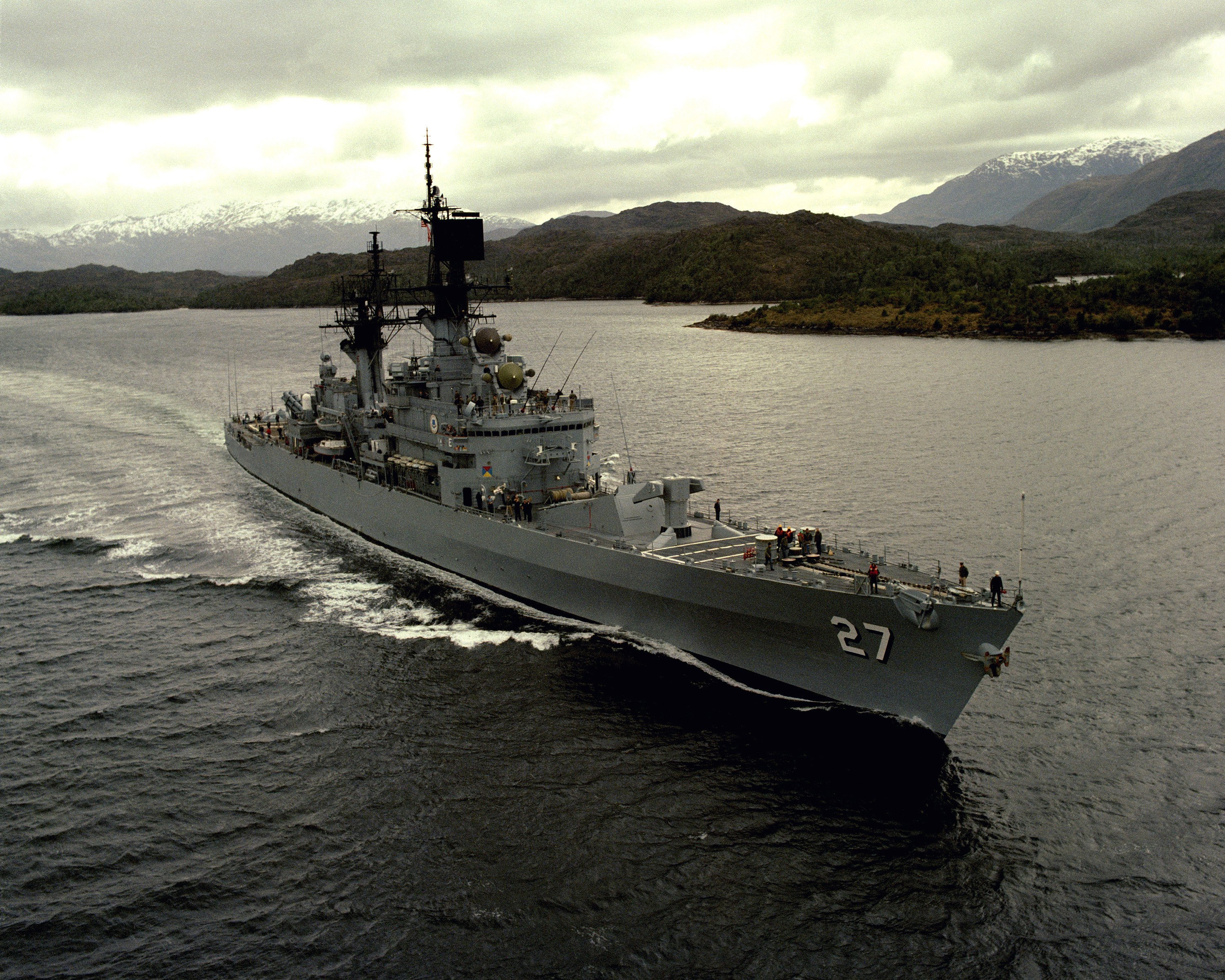 The U.S. Navy guided missile cruiser USS Josephus Daniels (CG-27) underway in the Strait of Magellan on 1 July 1990, during exercise "Unitas XXXI", a combined exercise involving the naval forces of the United States and nine South American nations.